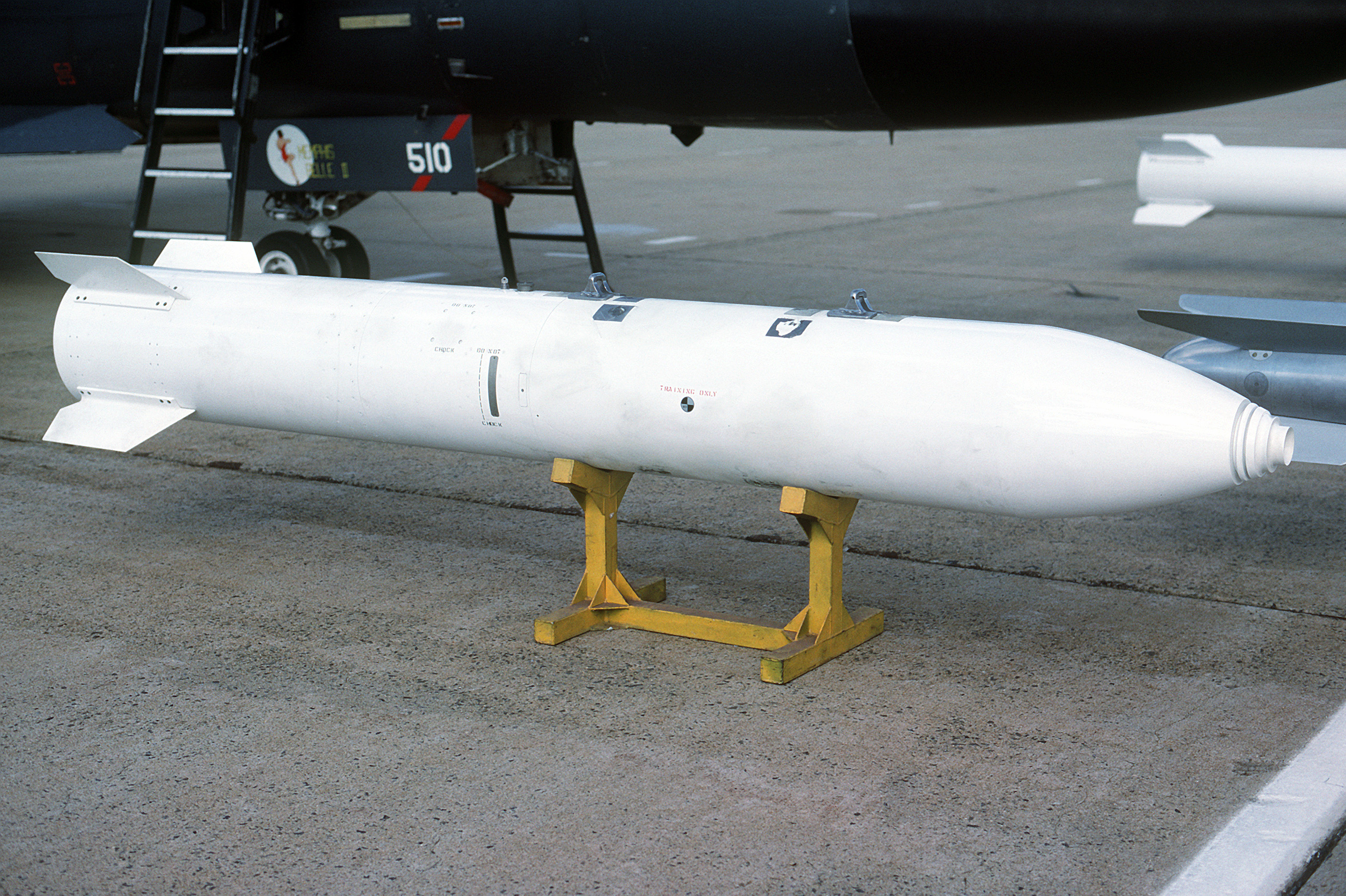 B83 nuclear bomb casing. Original caption: ID: DFST9009842 Service Depicted: Air Force Command Shown: F3203 A view of a B-83 nuclear bomb trainer being shown at static display of a 509th Bomb Group FB-111 aircraft. Location: PEASE AIR FORCE BASE, NEW HAMPSHIRE (NH) UNITED STATES OF AMERICA (USA) Camera Operator: MASTER SGT. KEN HAMMOND Date Shot: 4 Oct 1989. Note: there is another B-83 in the distance. The highly characteristic grey tailfins on the extreme right belong to a B-61 nuclear bomb.